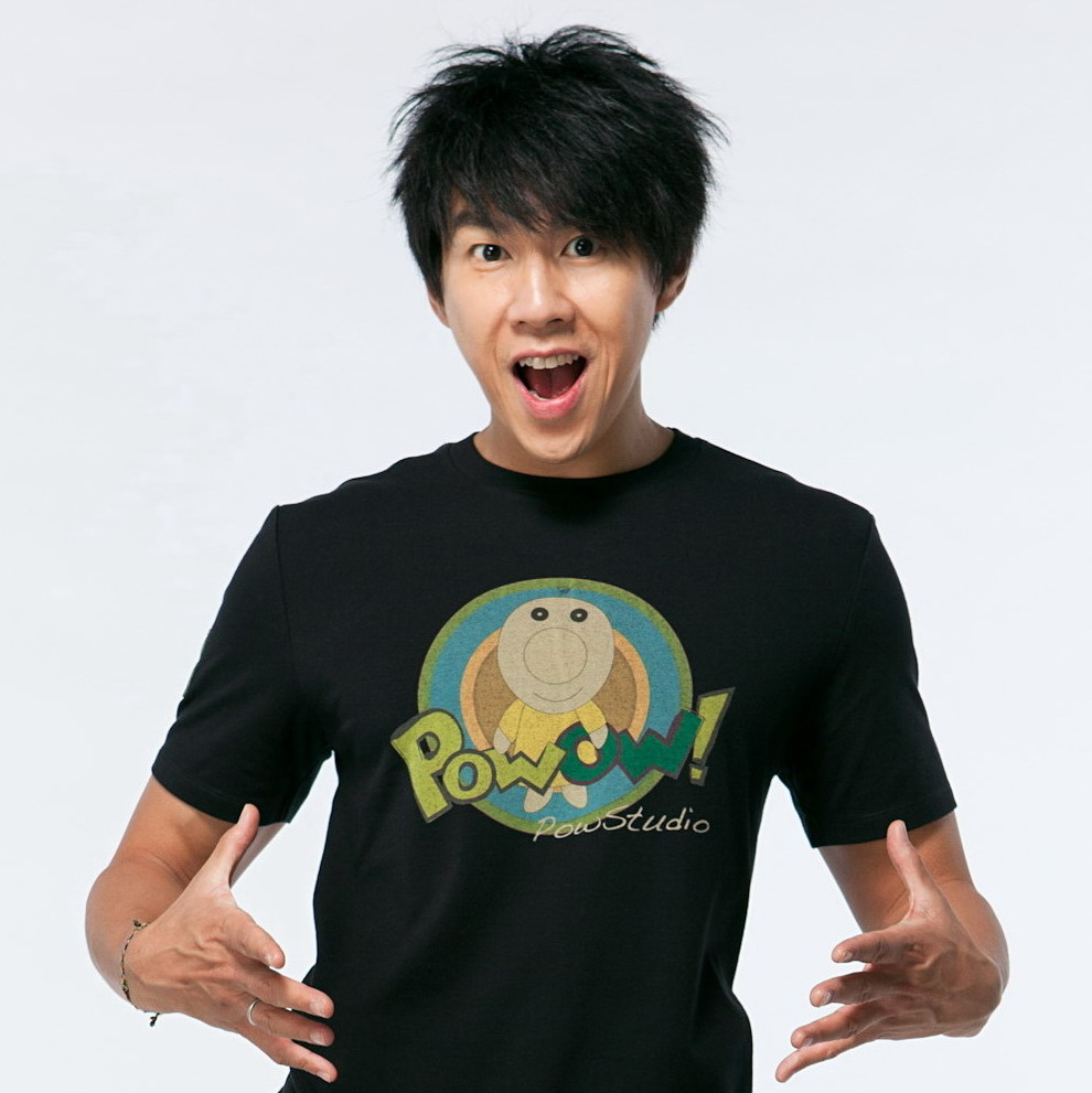 Dennis Au.